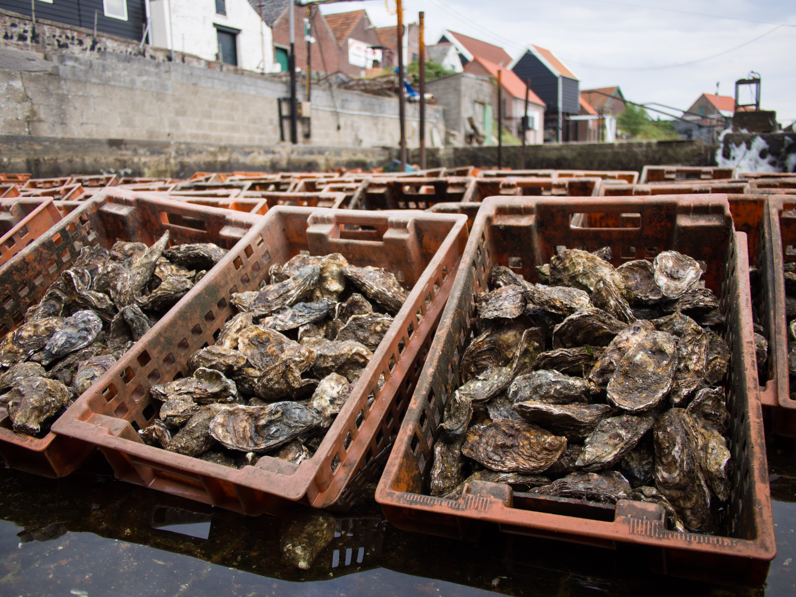 Here in the village of Yerseke, Netherlands, pacific oysters (locally called "creuse") that have been cultivated in the Oosterschelde, are kept in large oyster pits after they have been harvested, awaiting sale. The seawater in these pits is pumped in and out, simulating tidal movements.